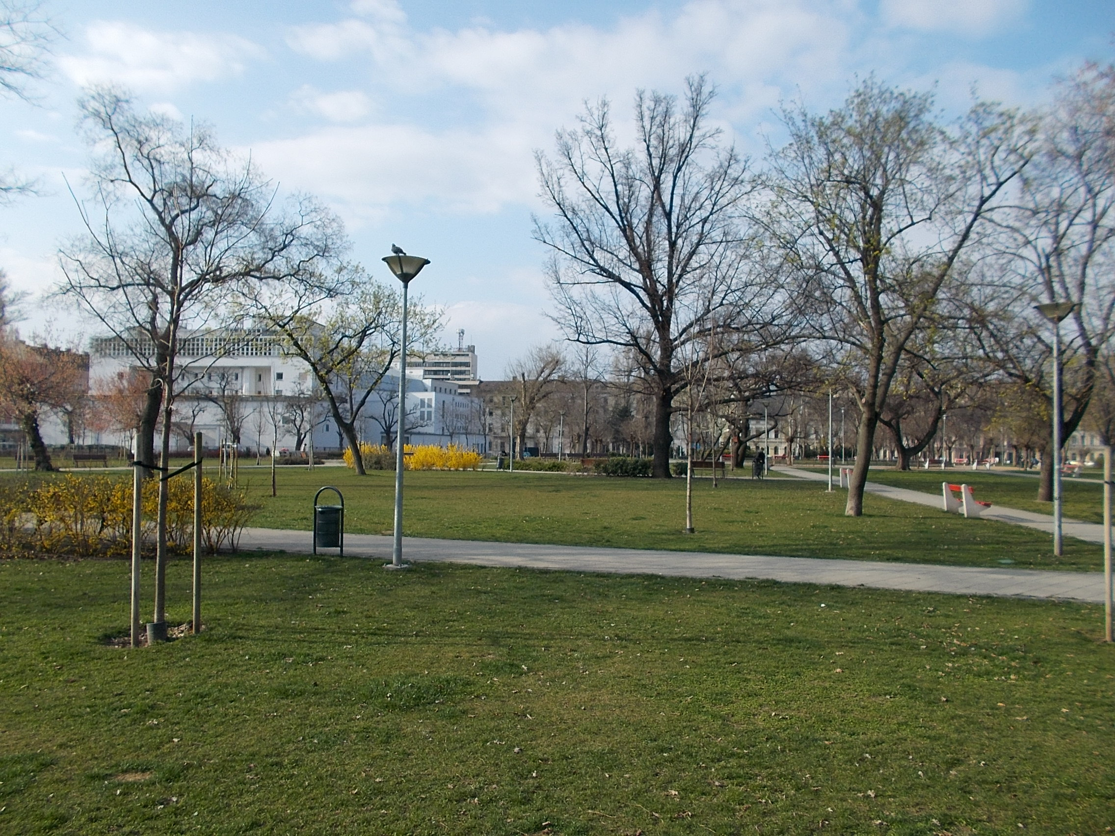 Mid part of tthe Park. - II. János Pál pápa Square, Népszínház neighbourhood, Budapest District VIII.